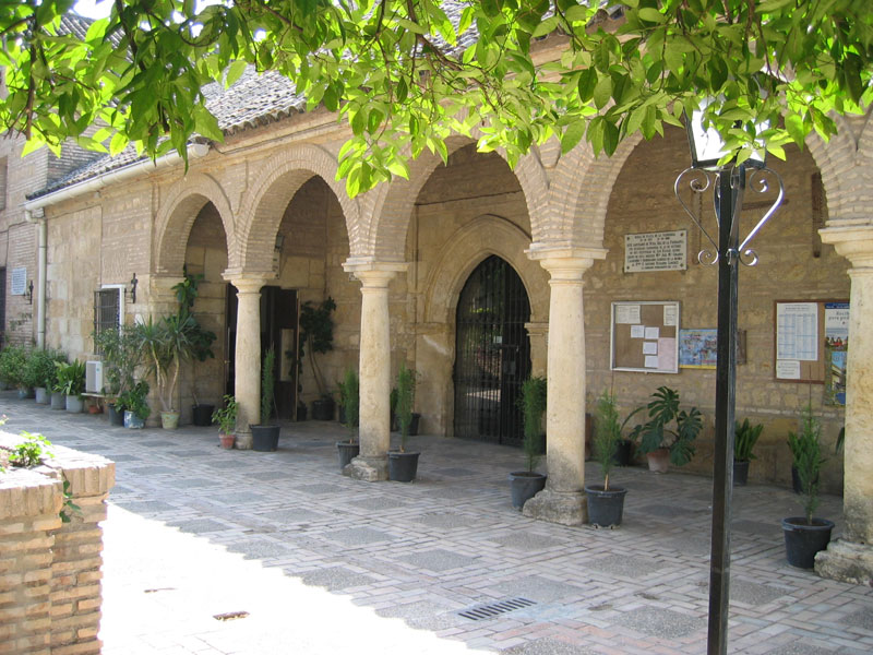 Nuestra Señora de la Fuensanta Sanctuary, in Córdoba (Spain).